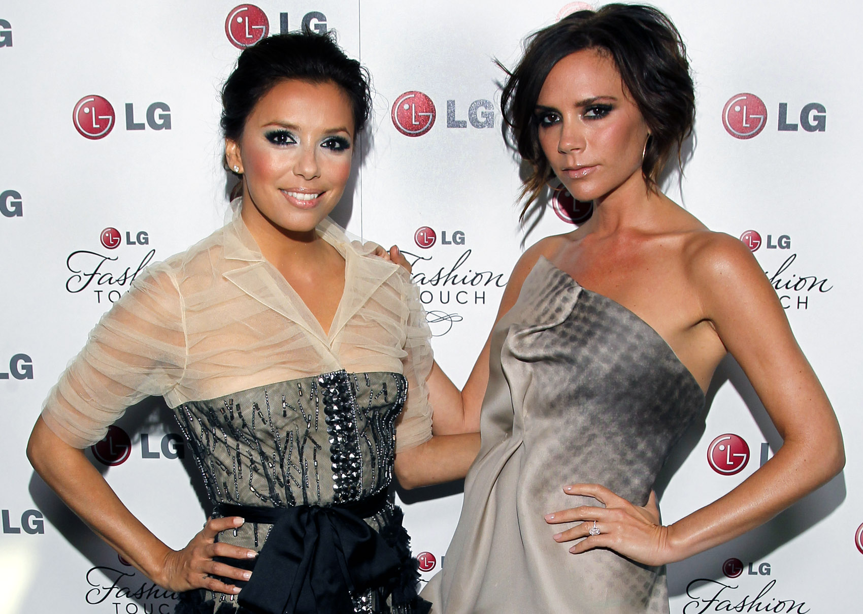 LG Mobile Phone Touch Event Hosted By Eva Longoria Parker and Victoria Beckham.